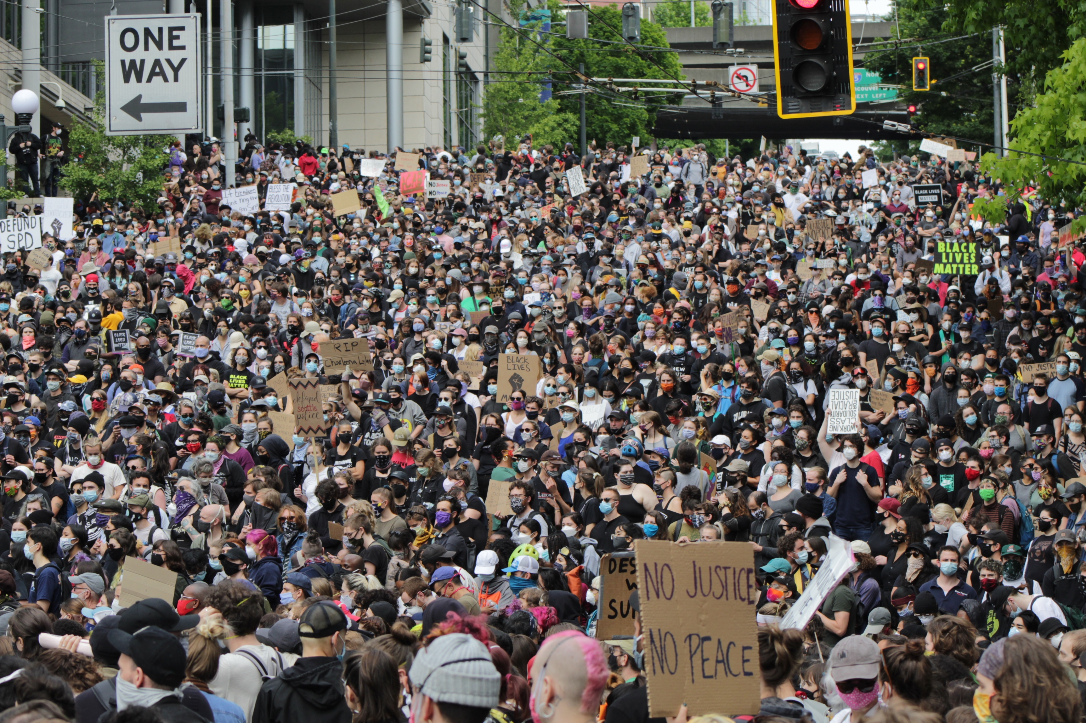 Protesters sit at the intersection of James Street and 4th Avenue in Downtown Seattle, in front of Seattle City Hall, as part of the George Floyd protests.